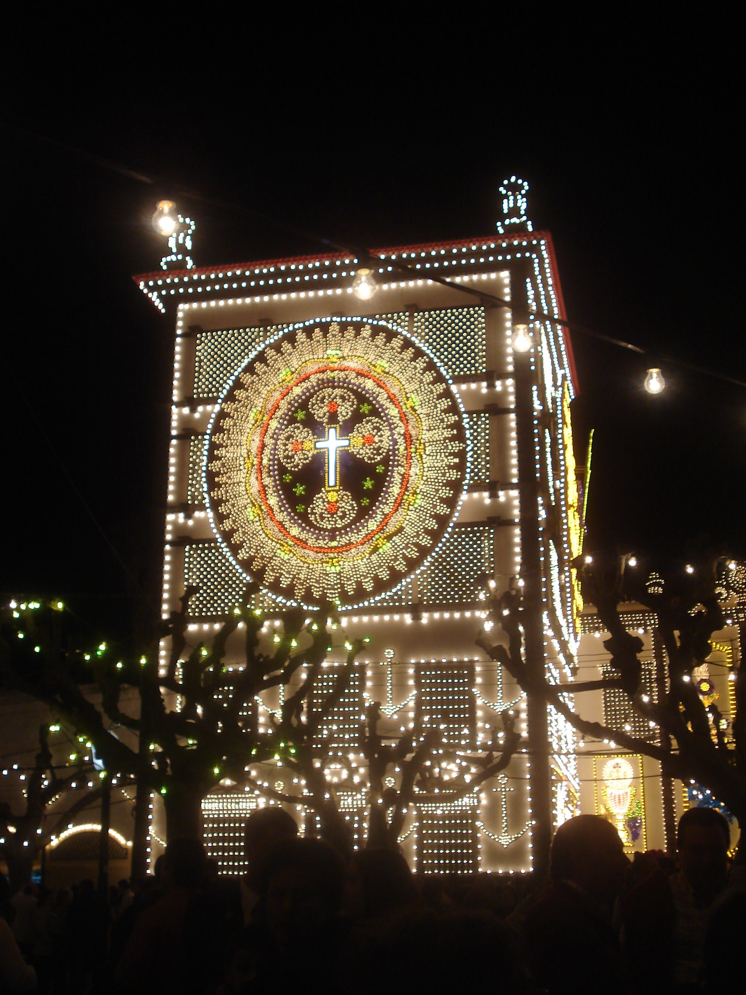 The illuminated tower of the Convent of Esperança during one of the evenings of the festival of Senhora Santo Cristo, in the municipality of Ponta Delgada (Azores), Portugal